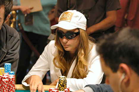 Vanessa Rousso at the 2006 World Poker Tour Five Star.